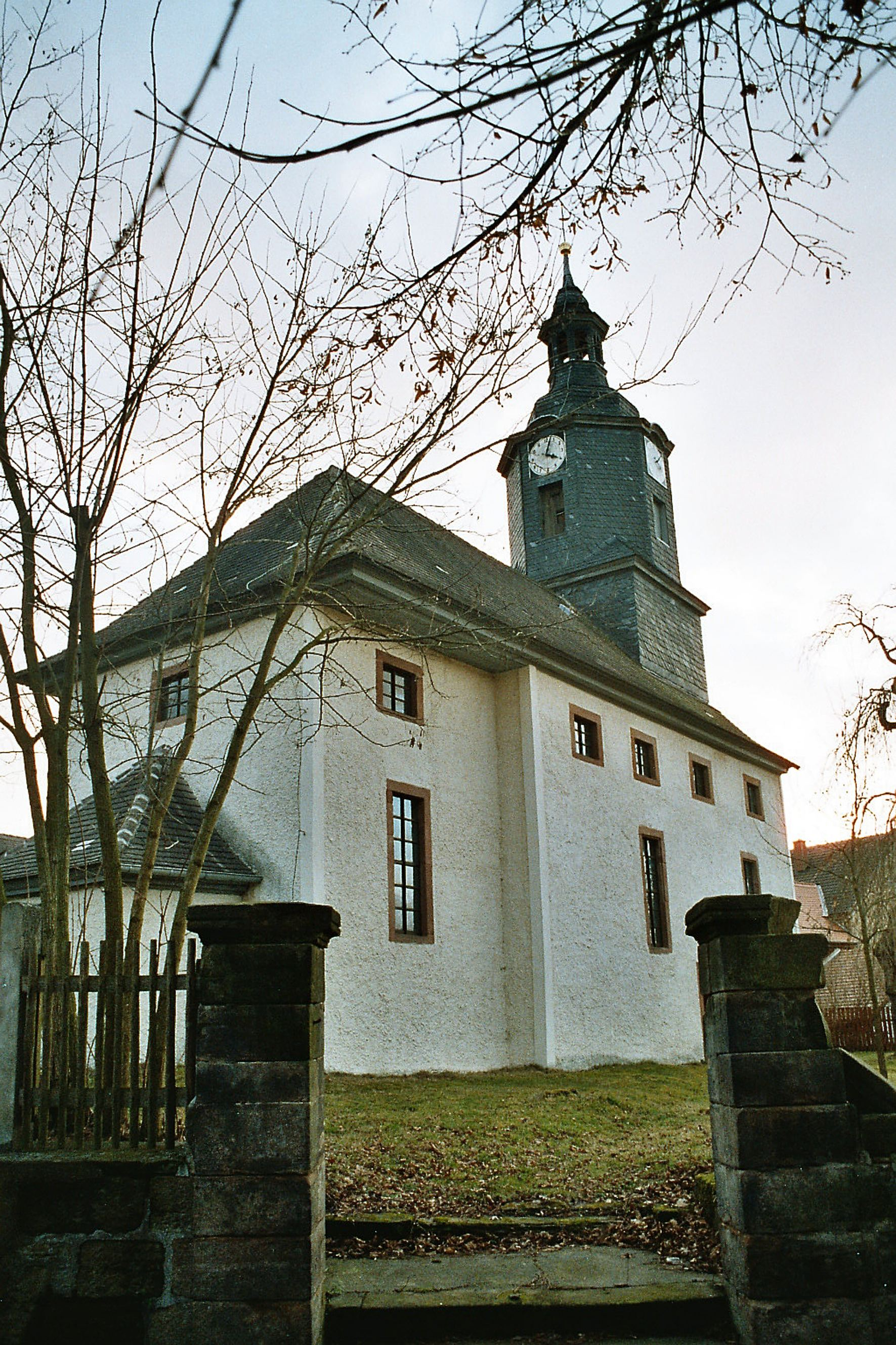 The village church of Ruttersdorf